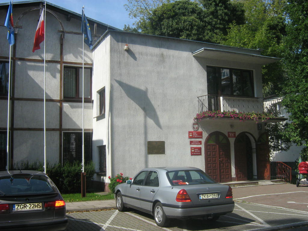 Town Hall in Międzyzdroje